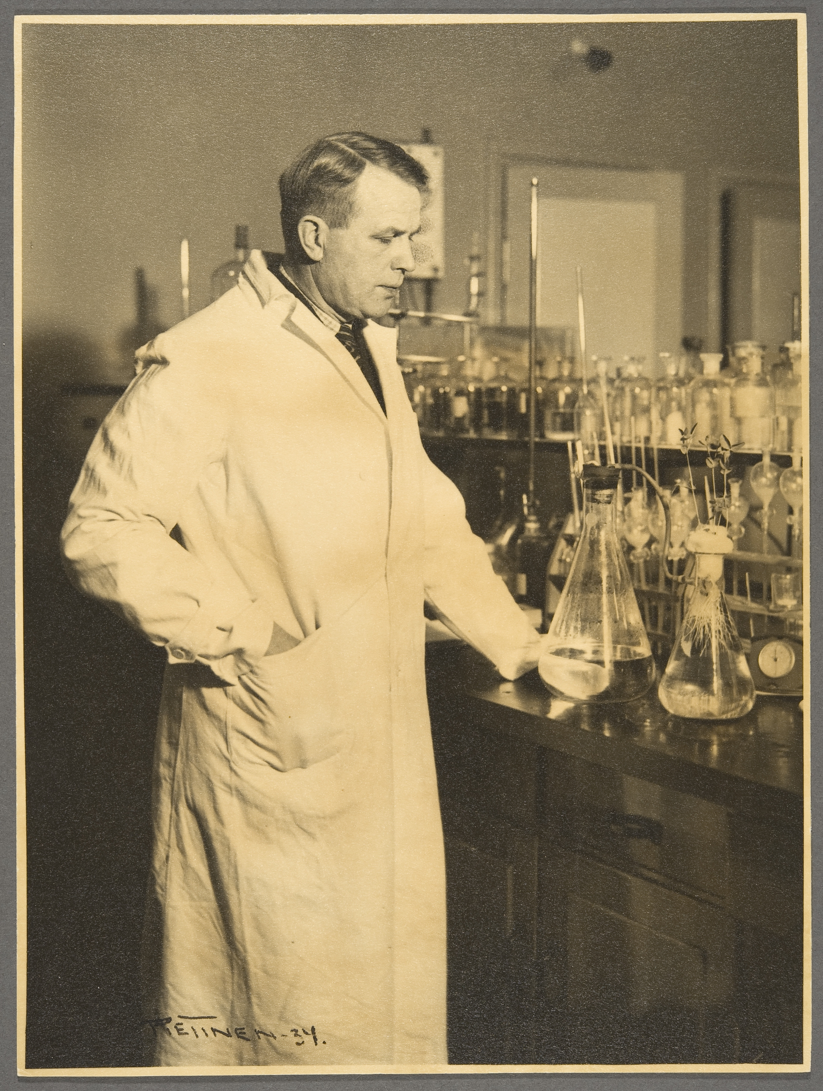 Photograph of the Finnish chemist Artturi Ilmari Virtanen (1895–1973) at his laboratory.